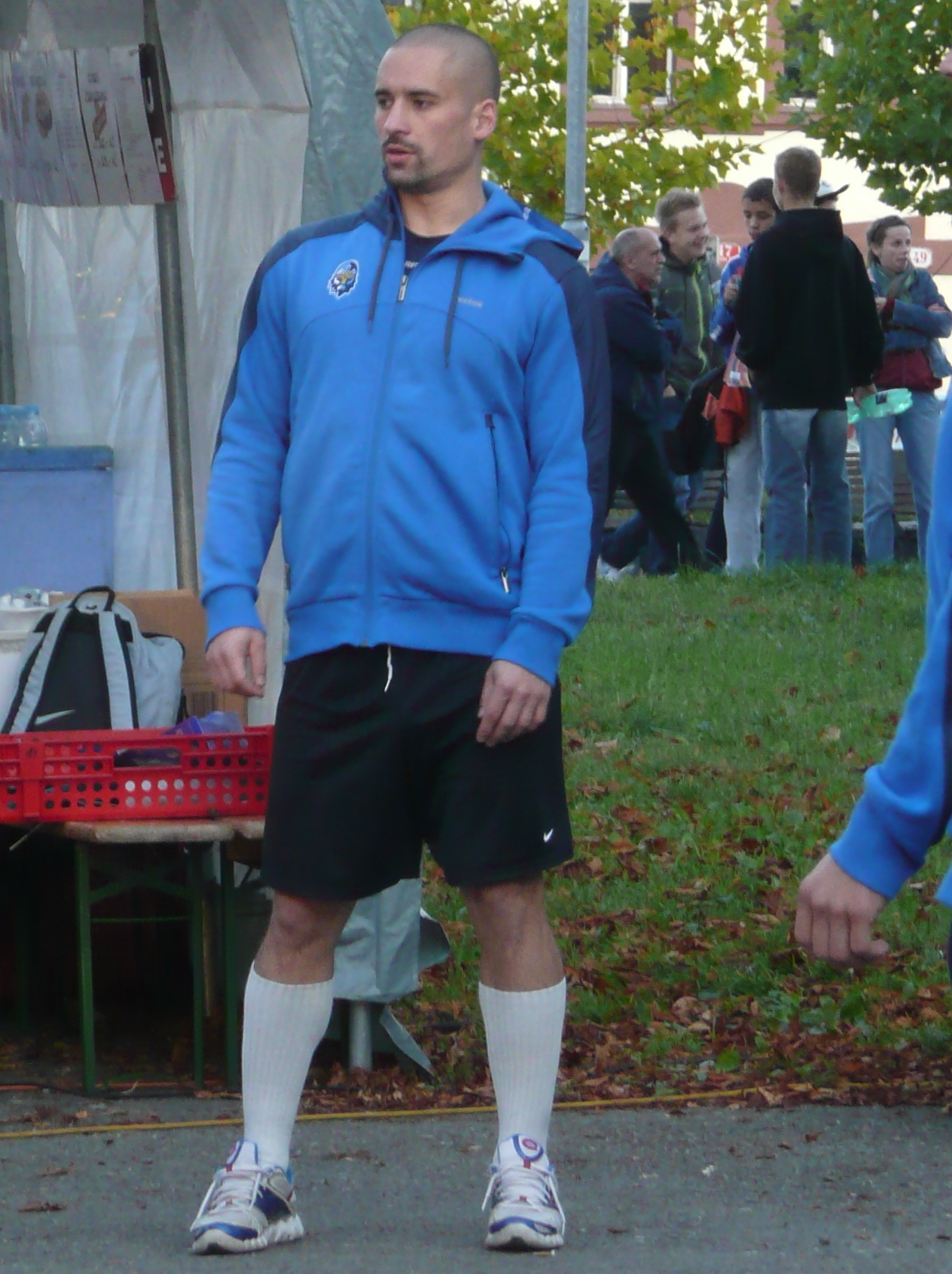 Tomáš Plekanec before a match between Rytíři Kladno and Škoda Plzeň on October 11, 2012.